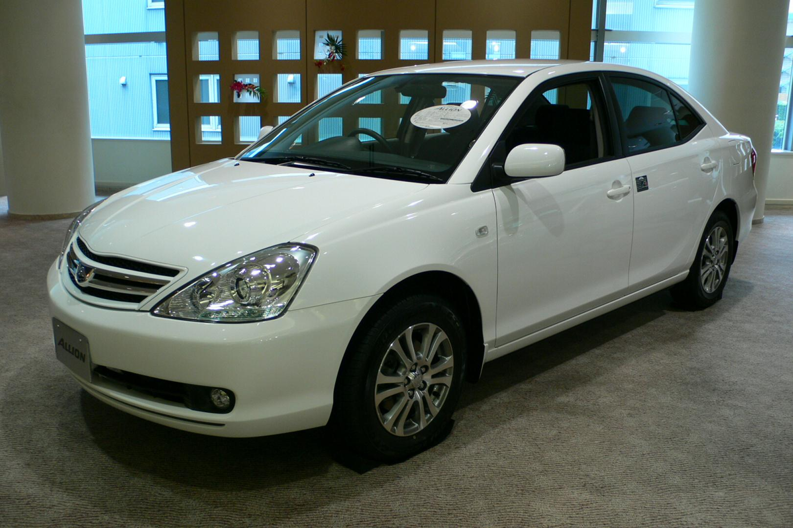 Toyota_Allion(2004) taken in Showroom of Toyota-AMLUX